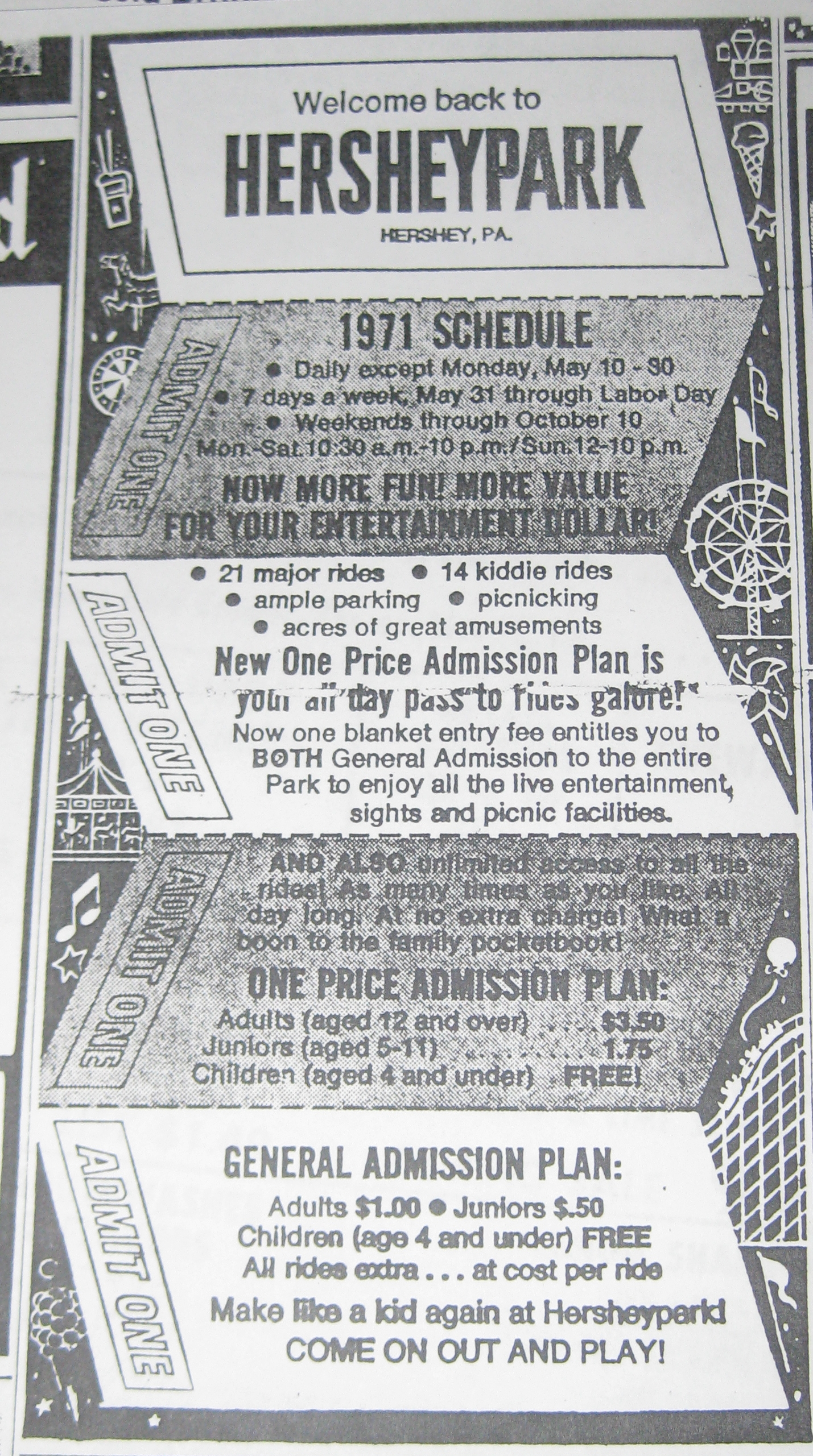 This is an ad for Hersheypark for the 1971 season in The Patriot-News.